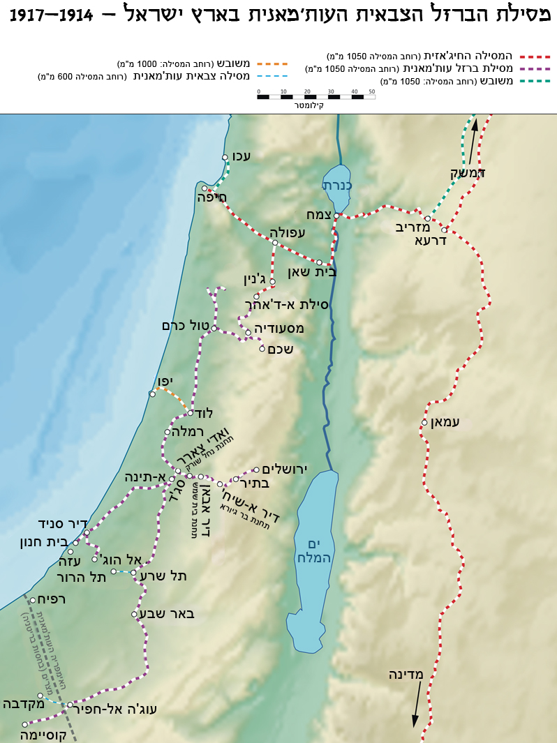 Ottoman military railway network in Palestine 1914–1917